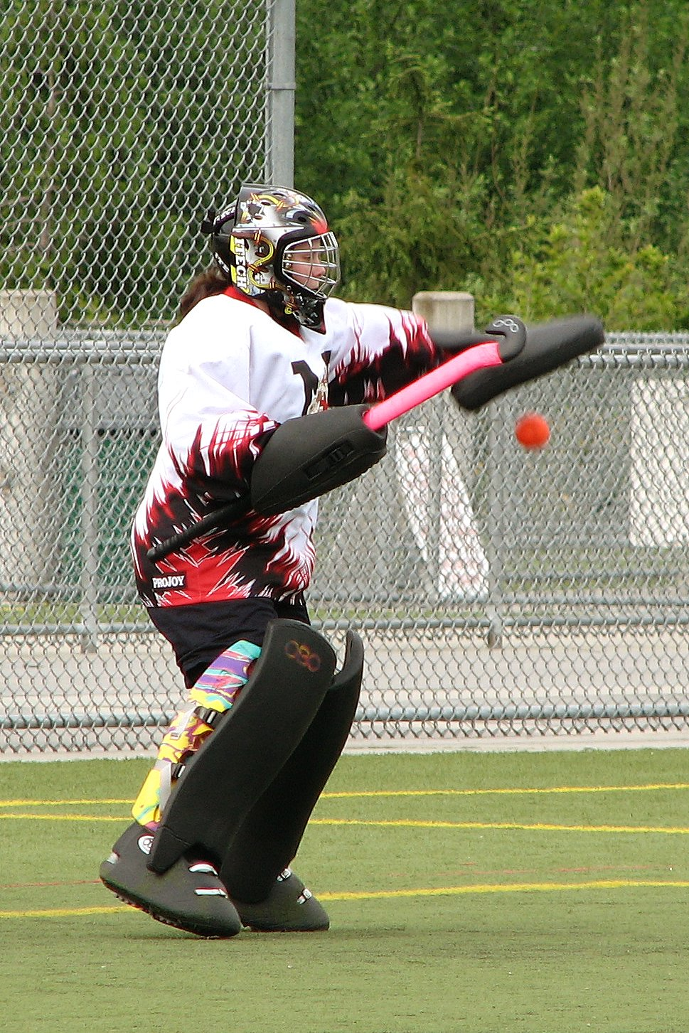 Field hockey goalie makes glove save at the Vancouver International Tournament (vipers versus Burnaby Dragons), Own Work, 2006/05/19, Author: frtzw906